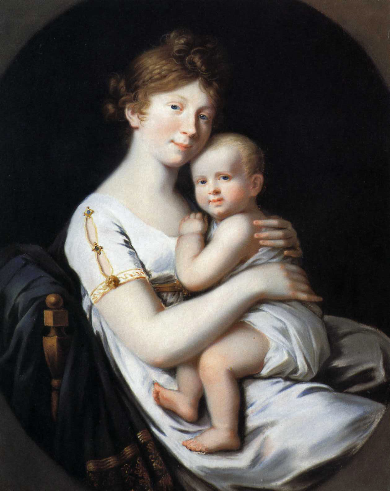 Crown Princess Luise with her son, Prince Friedrich Wilhelm (1796, J. H. Schröder)